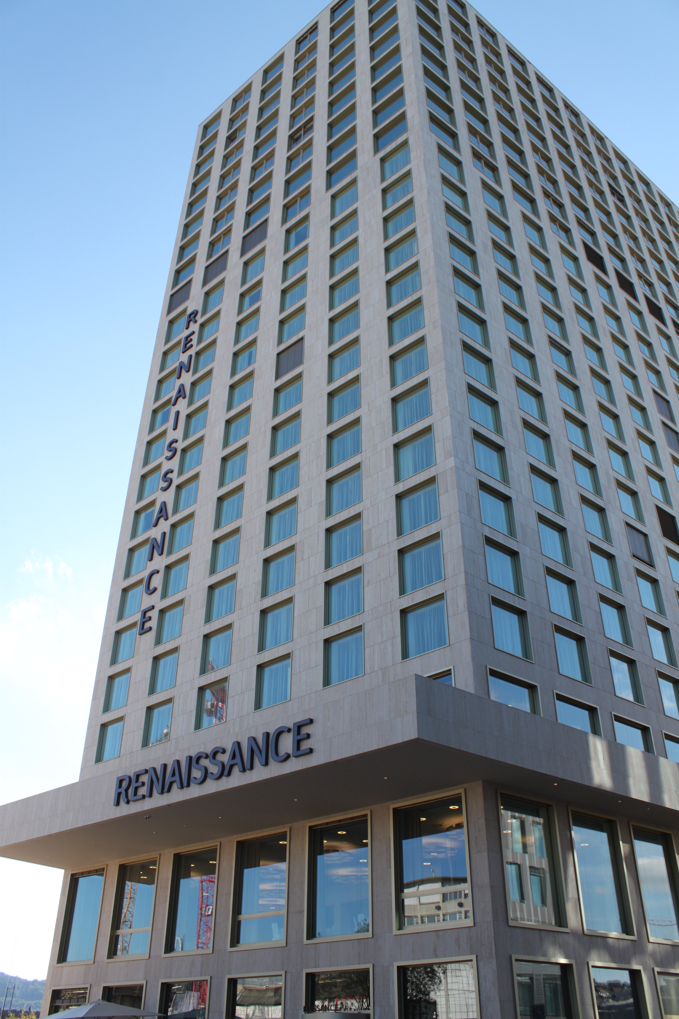 View on the entrance of the Renaissance Zürich Tower Hotel